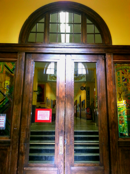 Inside the front doors of Roslyn Elementary School in Westmount, Quebec. Photo taken in 2013.